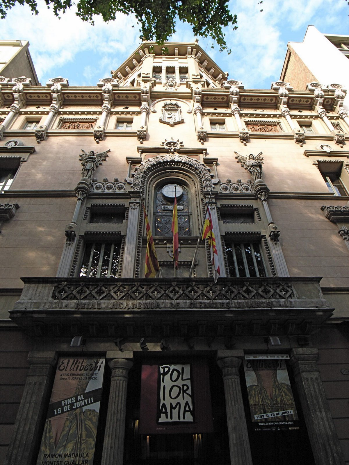 Barcelona- Teatre Poliorama & Real Acadèmia de Ciències i Arts, building by Domènech Estapà